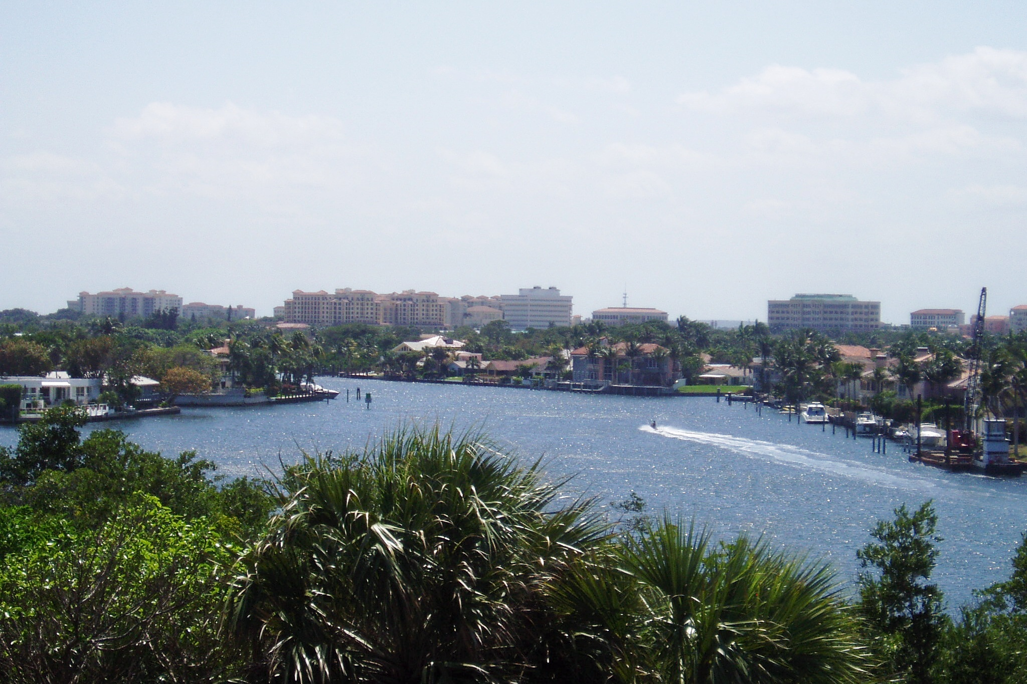 Downtown skyline of Boca Raton from Gumbo Limbo's observation tower, looking northwest.